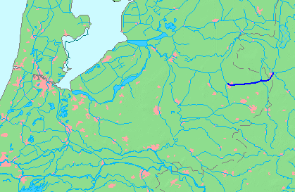 Location of a waterway (river/canal) in the Netherlends